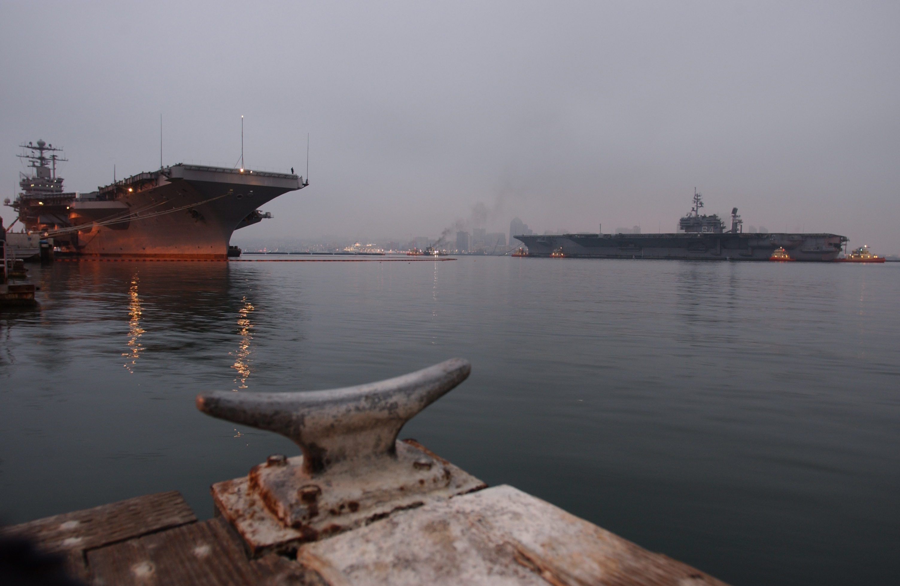 San Diego, Calif. (Sept. 12, 2003) -- The decommissioned aircraft carrier Constellation (CV 64) begins its transit from Naval Air Station North Island to Puget Sound Naval Shipyard as it passes by USS John C. Stennis (CVN 74). Constellation will be towed by a contracted ocean-going tug operated by Foss Maritime of Seattle, Wash. The transit is expected to take two weeks. The 41-year old ship recently completed its 21st deployment in support of Operations Enduring Freedom, Southern Watch and Iraqi Freedom in the Arabian Gulf. During Operation Iraqi Freedom, the Constellation Carrier Strike Group flew more than 1,500 sorties and expended more than a million pounds of ordnance. The carrier was decommissioned Aug. 7, and will be replaced in San Diego next year by USS Ronald Reagan (CVN 76). Constellation has been home ported in San Diego since 1962. U.S. Navy photo by Photographer’s Mate 1st Class Aaron Ansarov. (RELEASED)